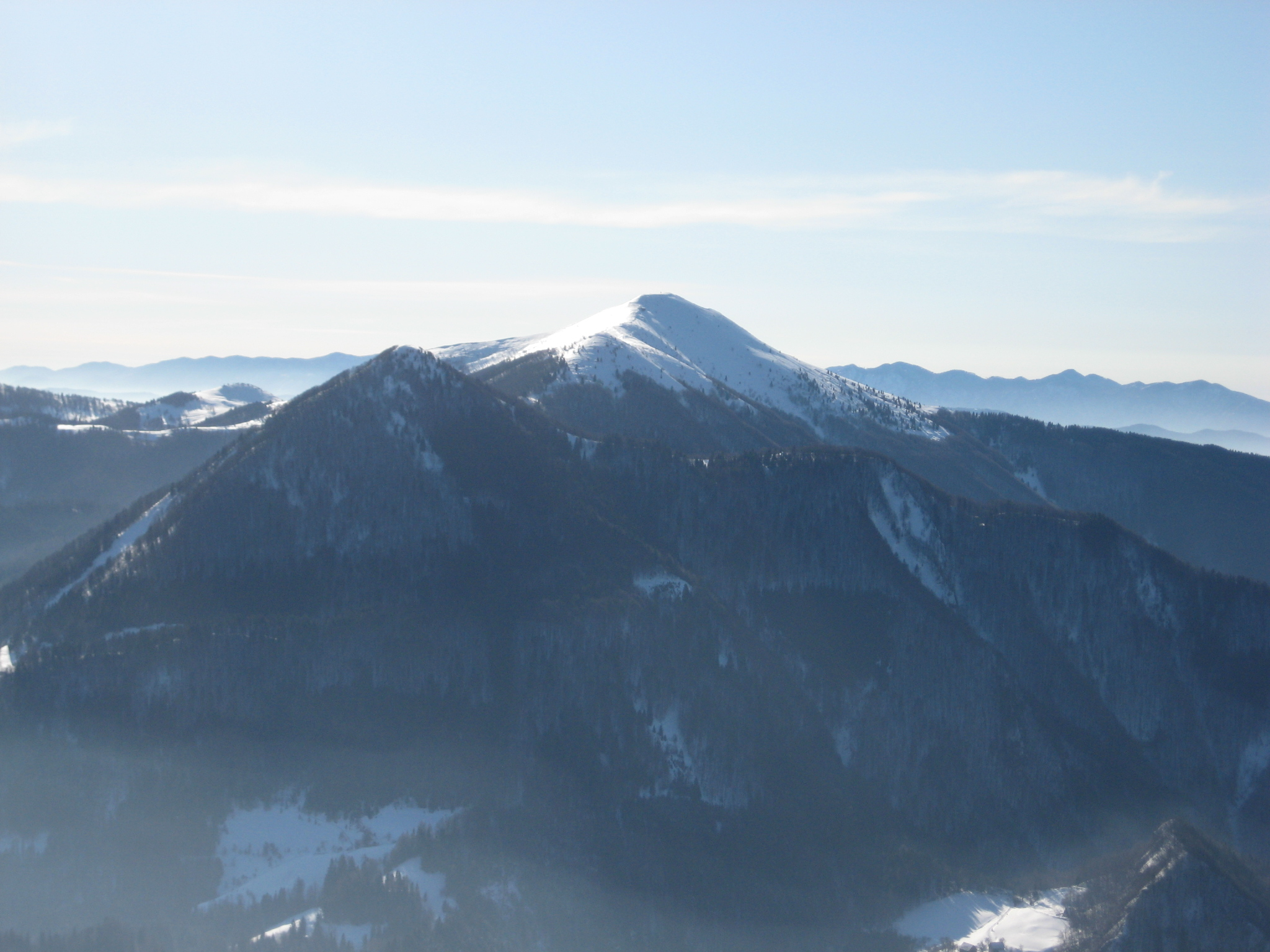 Porezen, mountain in Slovenia (view from Sorica)